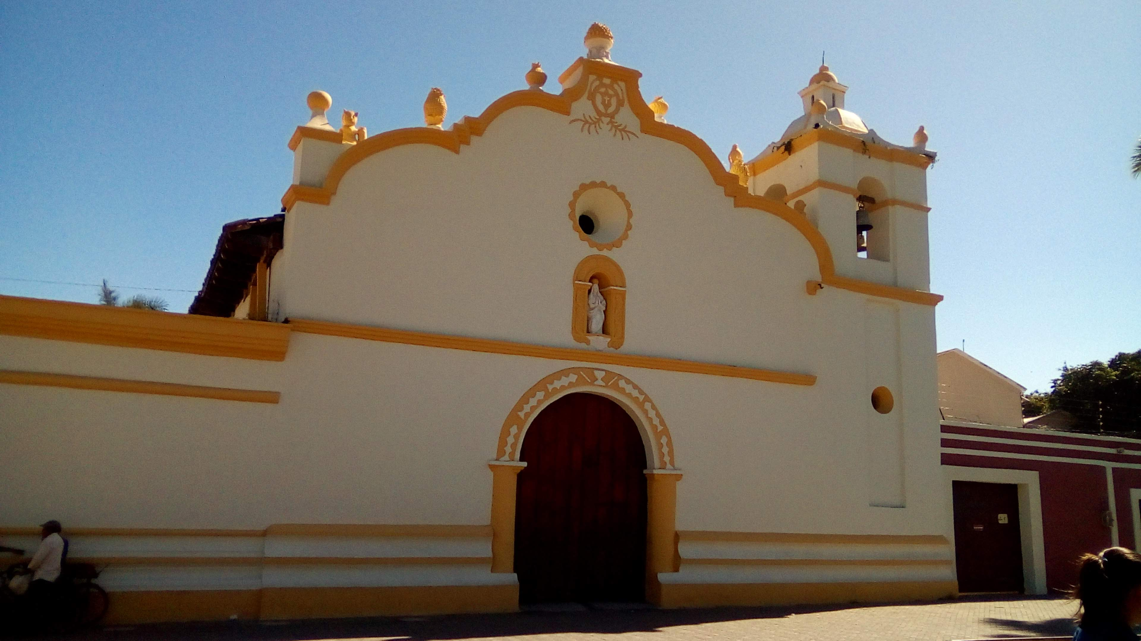 Iglesia de la merced en 2018